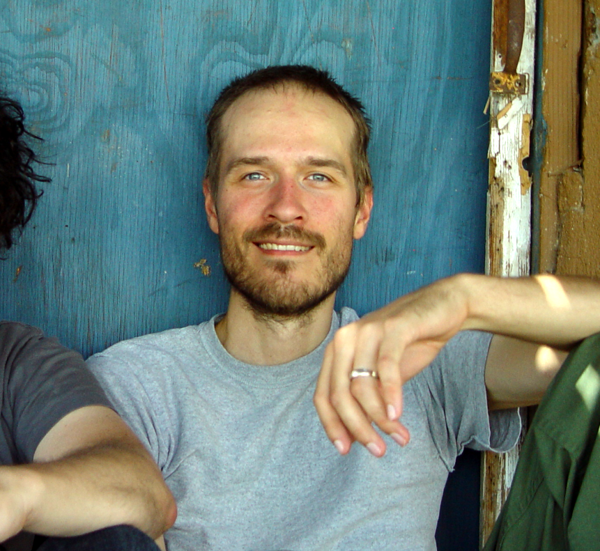 Jason Rohrer the developer behind Diamond Trust of London. The game and its supporting assets have been released into the public domain. The project is hosted on SourceForge at (license) This photograph forms part of the rear box art.